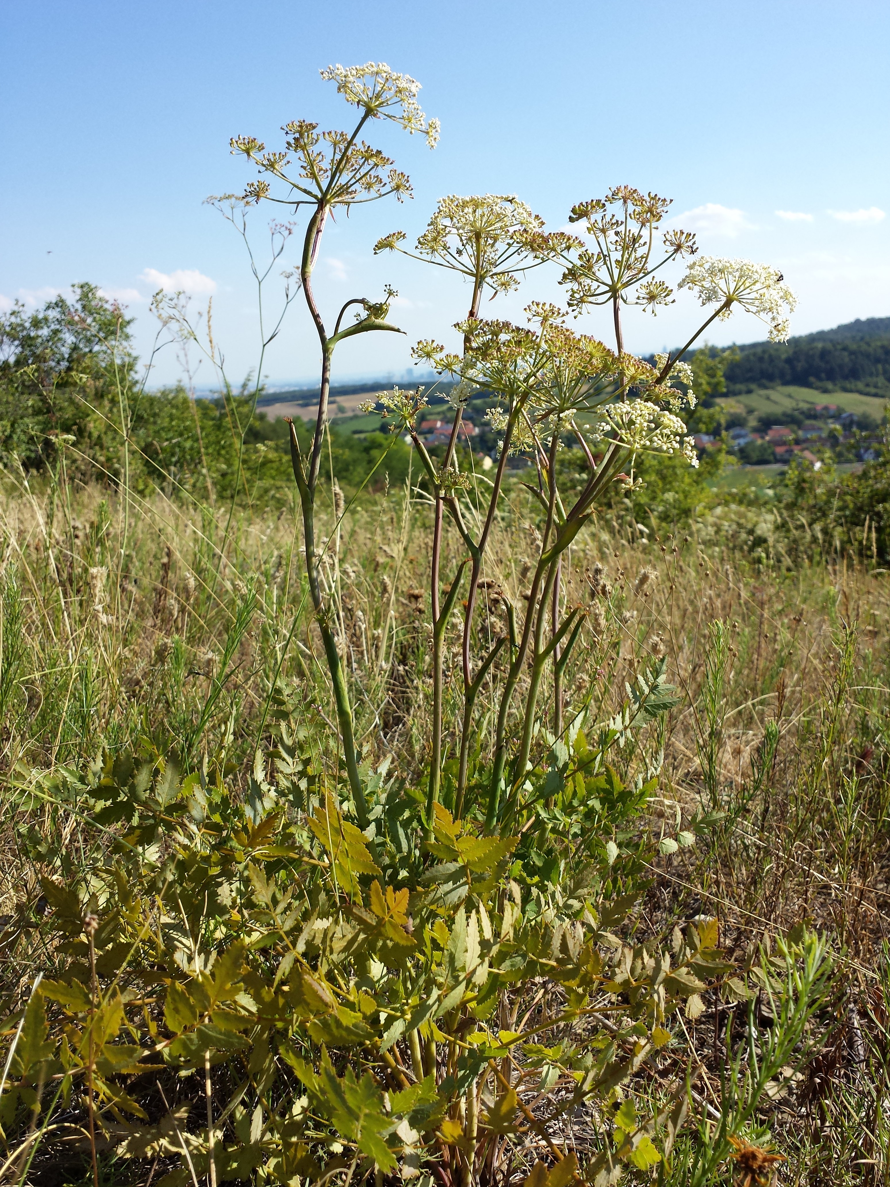 Habitus Taxon: Cervaria rivini (sensu Fischer et al. EfÖLS 2008) Location: natual monument Kronawettberg near Hagenbrunn, district Korneuburg, Lower Austria - ca. 280 m a.s.l. Habitat: dry grassland